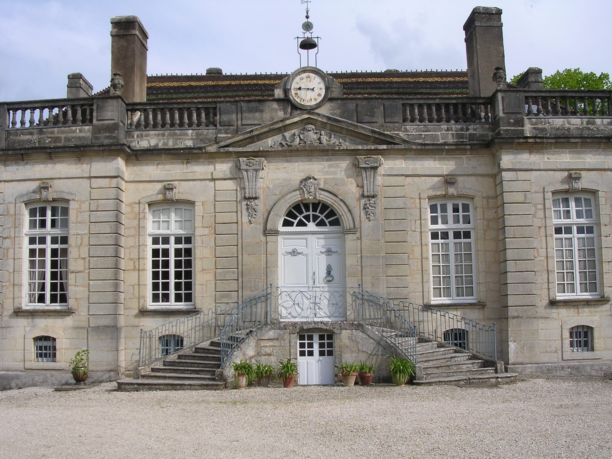 Beaumont-sur-Vingeanne, Côte-d'Or, Bourgogne, FRANCE Beaumont-sur-Vingeanne. Le château fut construit en (1706 ou 1708 ou en 1724 ?) pour l'abbé Claude Jolyot, (mort le 16 mai 1762), membre d'une famille au service des Saulx-Tavannes.